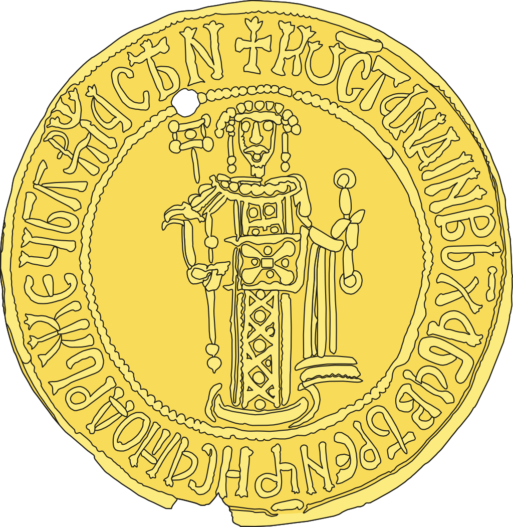 Golden seal of tsar Konstantin Asen. Inscription in Bulgarian: "+Konstantin, in Christ the God, a faithful tsar and autocrat of the Bulgarians, Asen." The original is stored in in the National Archaeological Museum in Sofia. Въз основа на снимка в "История на България. Том 3. Втора българска държава", Издателство на Българската академия на науките, София, 1982 г. (Based on the picture to "History of Bulgaria. Tomе 3. Second Bulgarian Empire", Publishing the Bulgarian Academy of Sciences, Sofia, 1982.) [1]